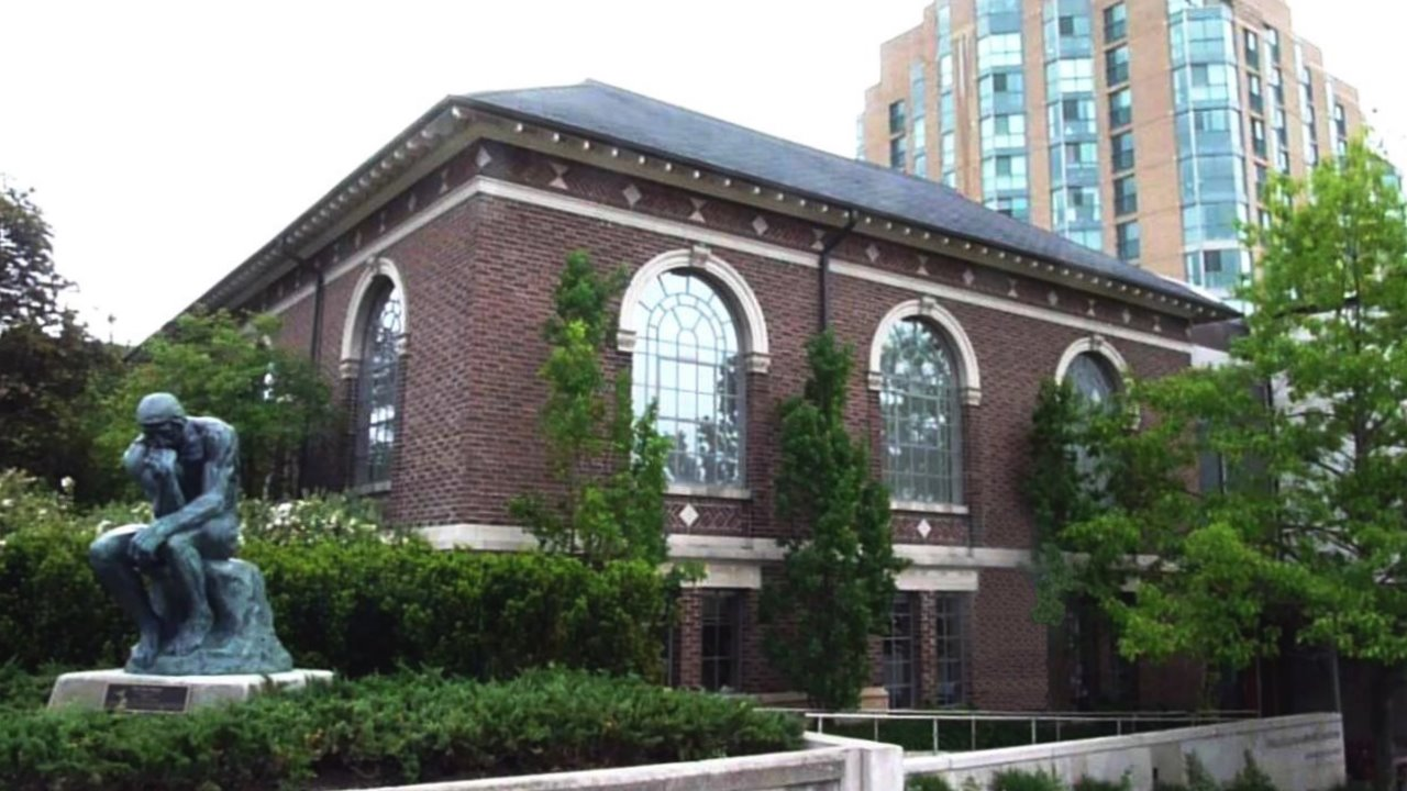 Barrie Public Library, Barrie Carnegie Library